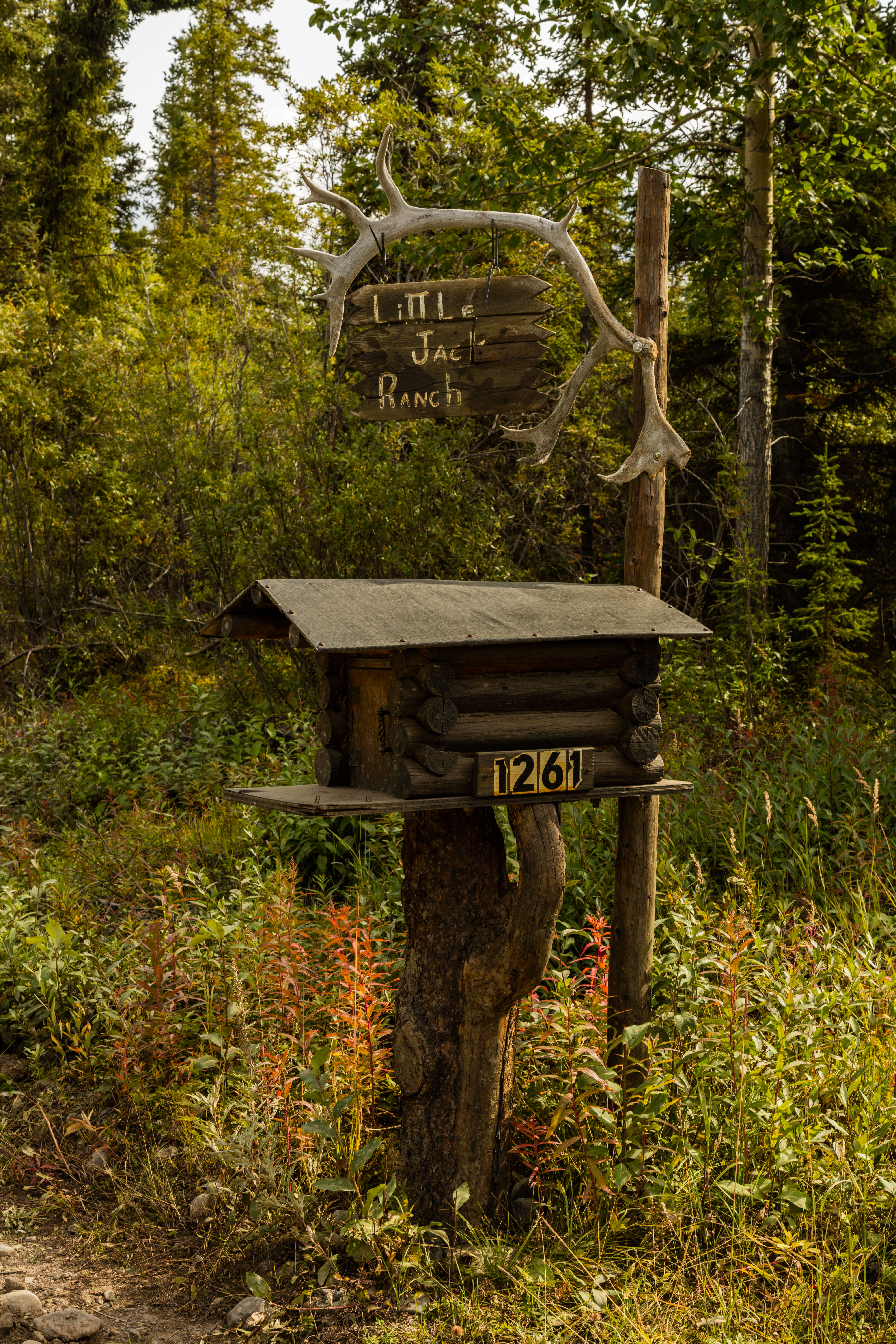 Letter box in Tetlin National Wildlife Refuge, Alaska, USA